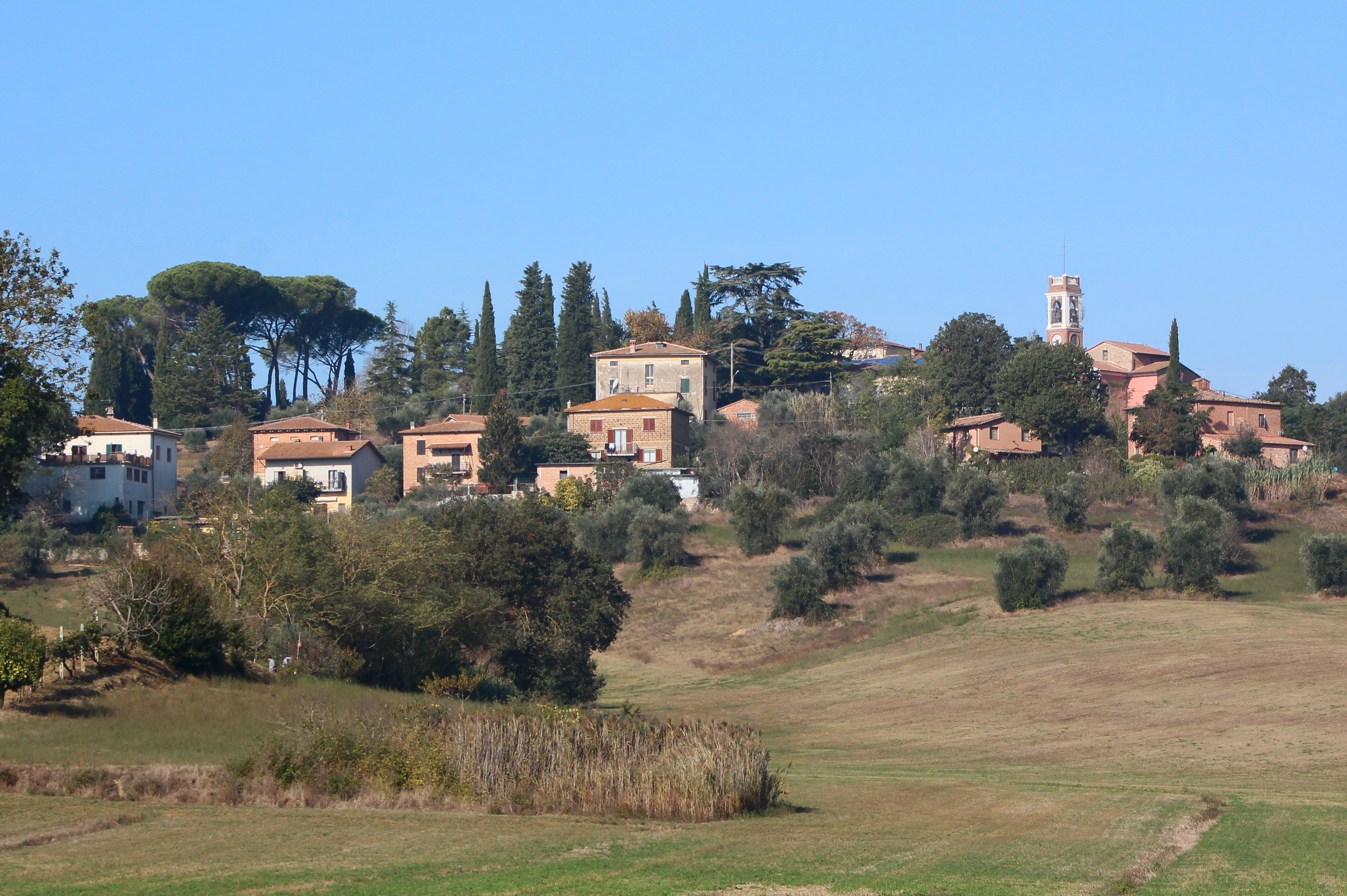 Porto, hamlet of Castiglione del Lago, Province of Perugia, Tuscany, Italy